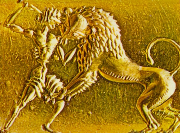 Bead found in Grave Circle A, Mycenae, 16th century BC